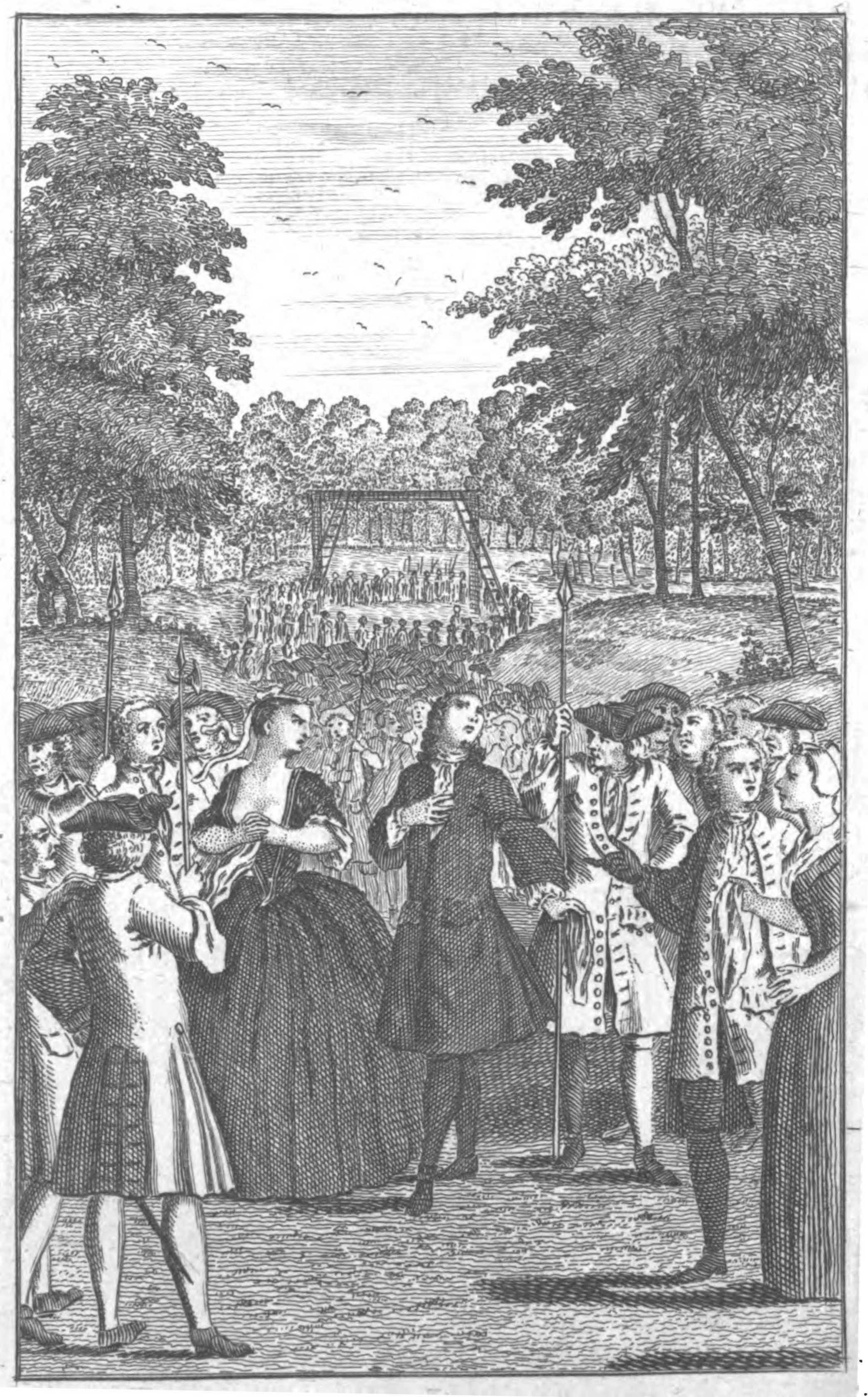 George Lillo, The London Merchant, Frontispiece, 1763.